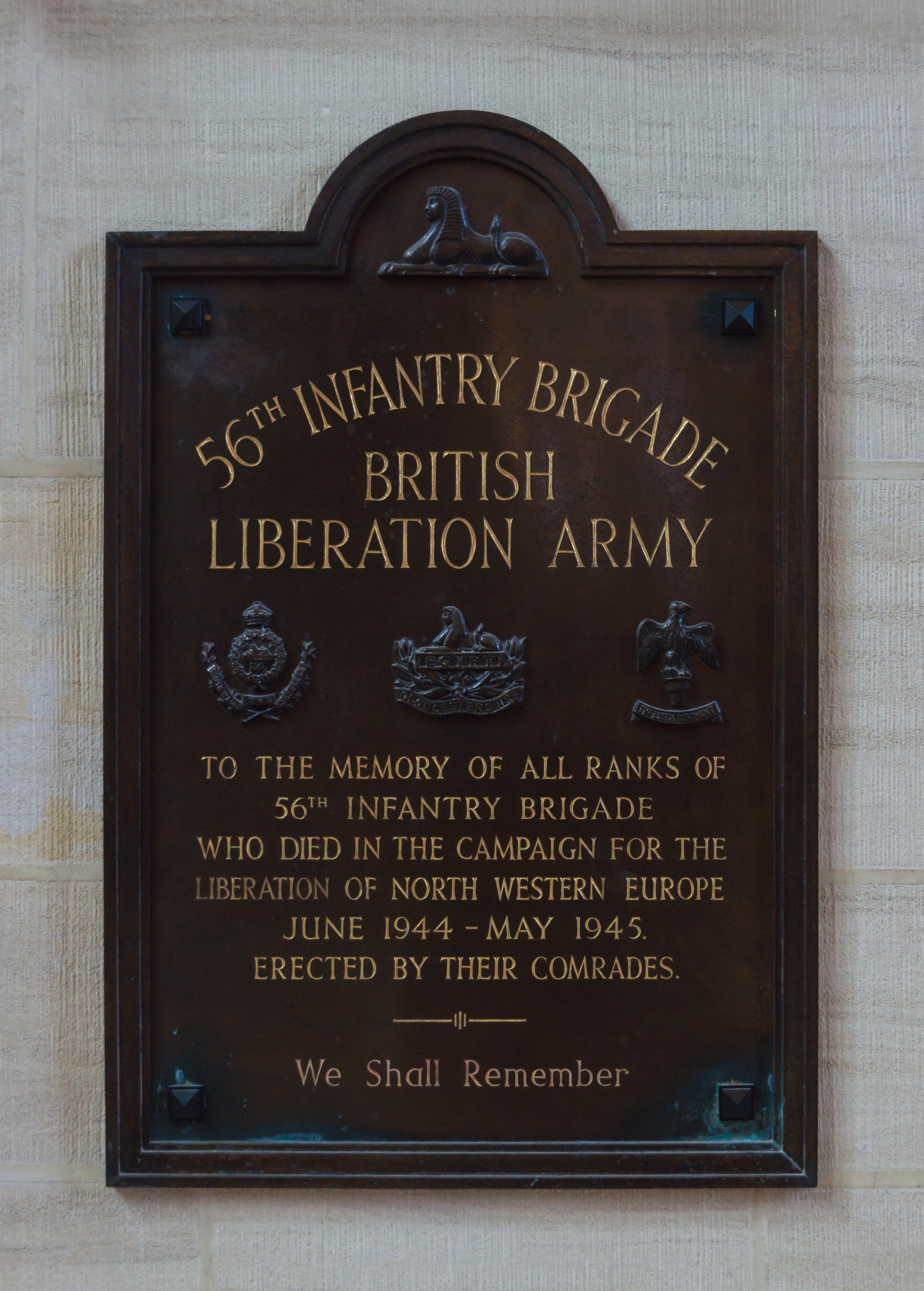 Tribute plaque to the Deaths of the 56th British Infantry Brigade, 1944-45, Cathedral of Bayeux, Calvados, Normandy, France.